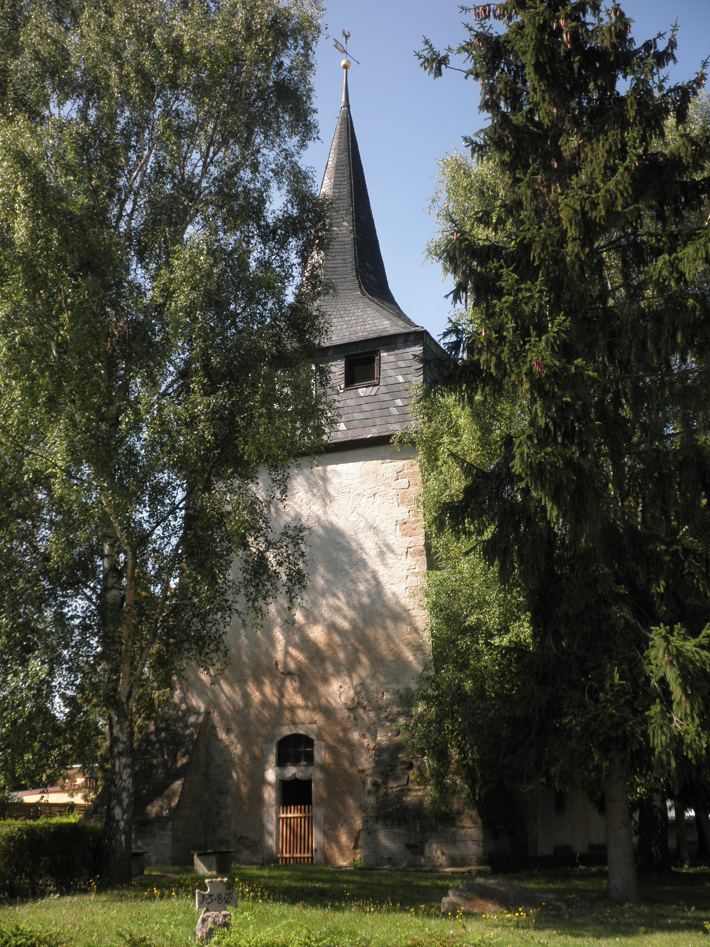 Church Spire in Klettstedt in Thuringia